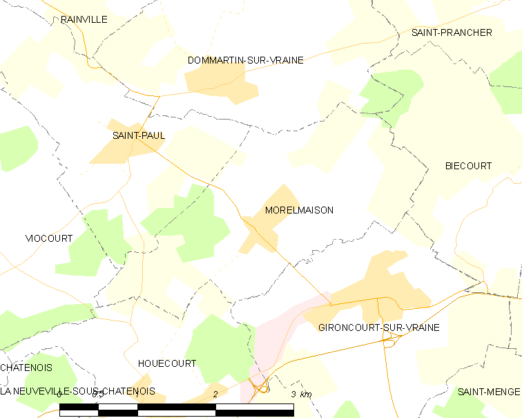 Map of French municipality Morelmaison